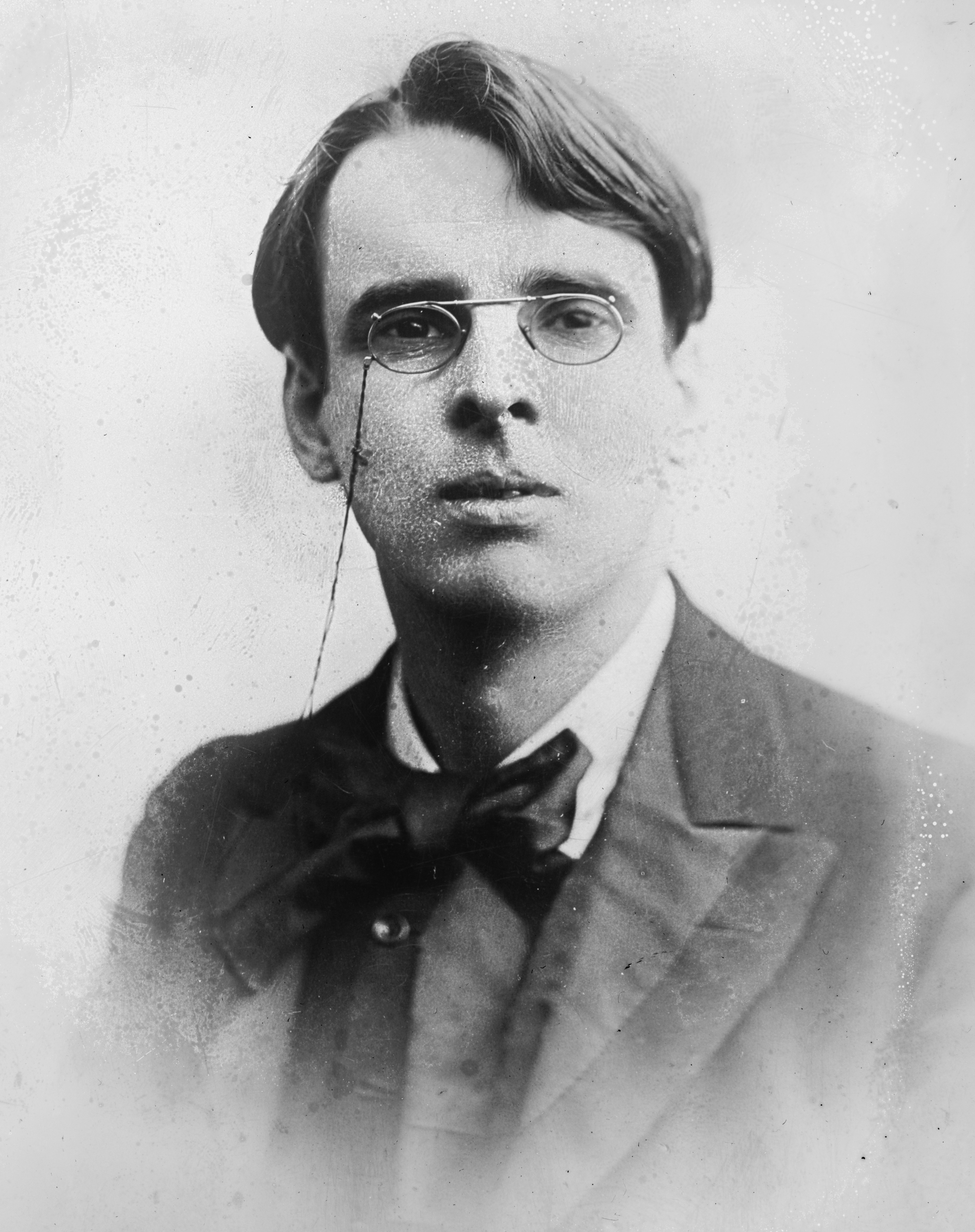 W. B. Yeats (1865–1939), Irish poet.